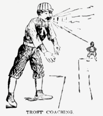 An illustration of Nashville Seraphs player Mike Trost coaching from the May 2, 1895, edition of The Nashville Banner.